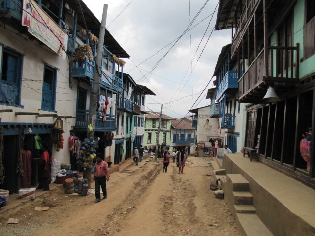 Diktel, Nepal